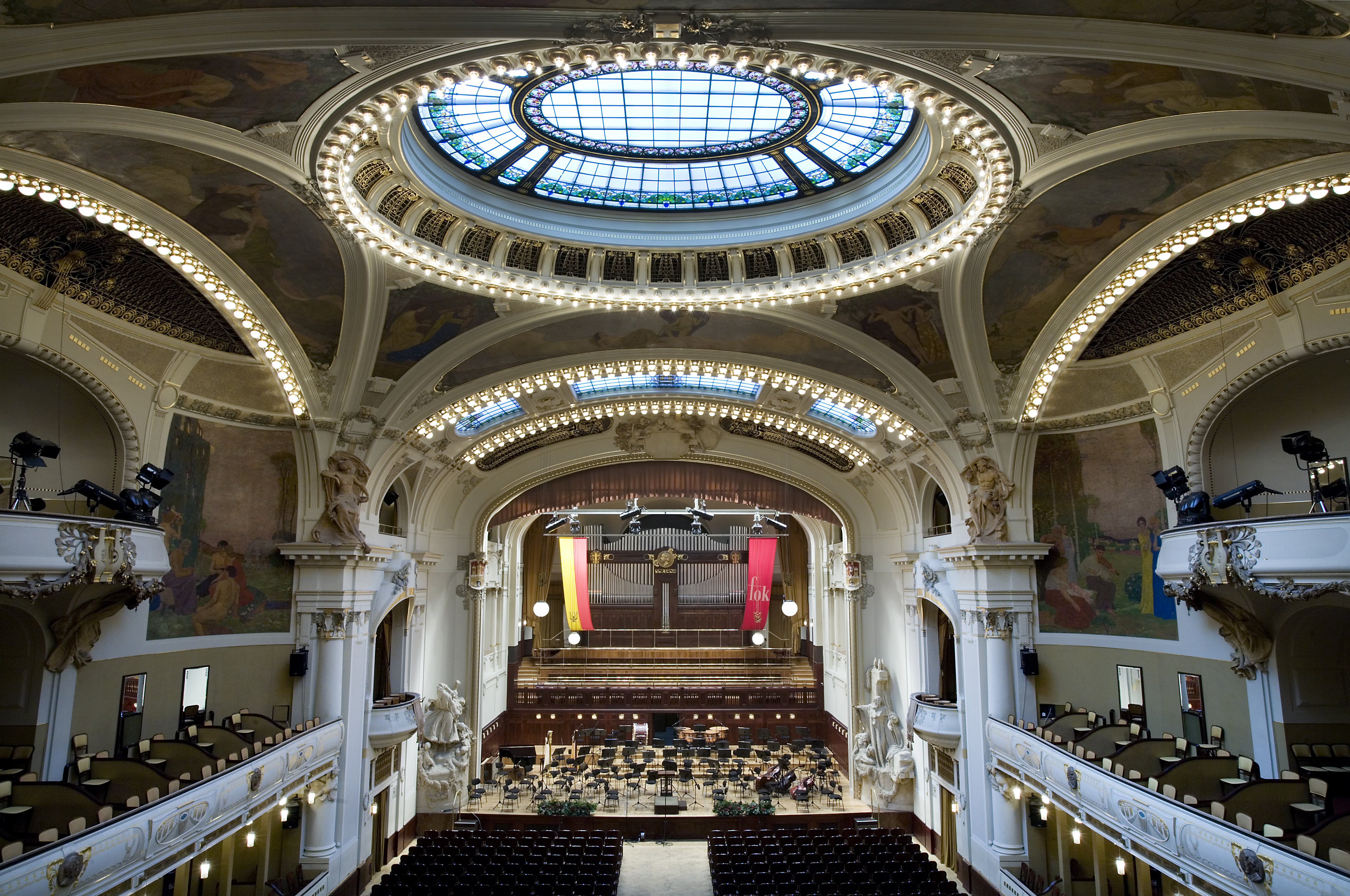 Smetana Hall at the Municipal House (Obecní Dum), Prague